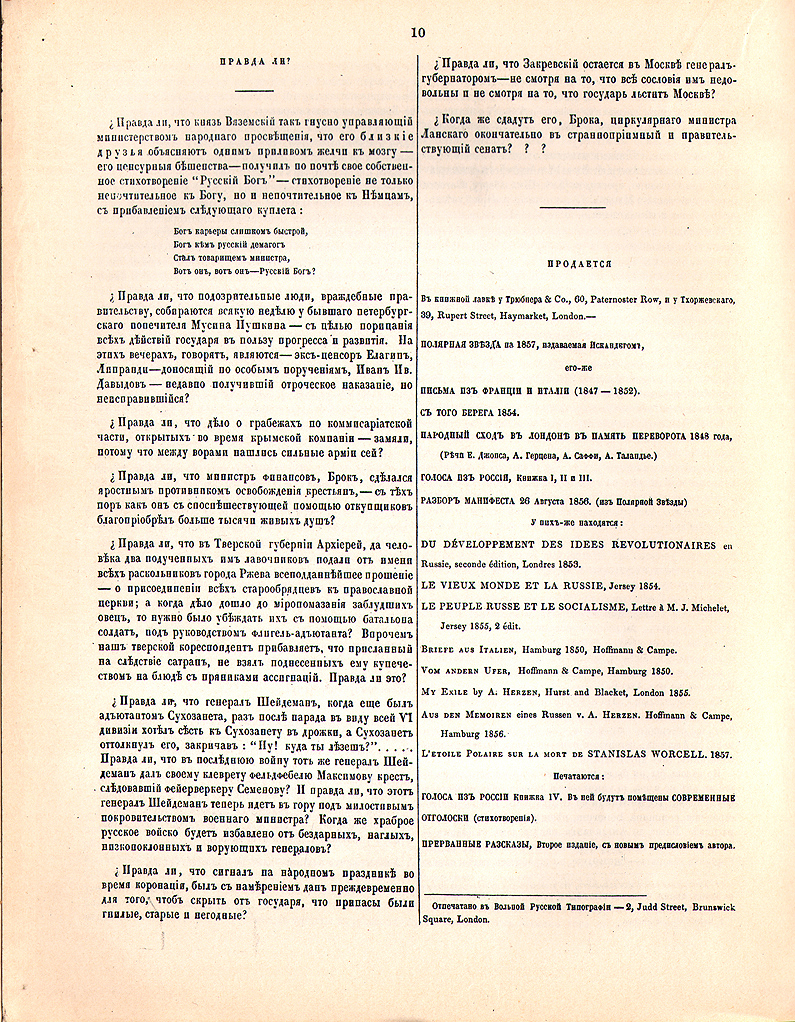 A 'Kolokol' newspaper of Alexader Herzen (about rzhevsk developments in 1857 year)